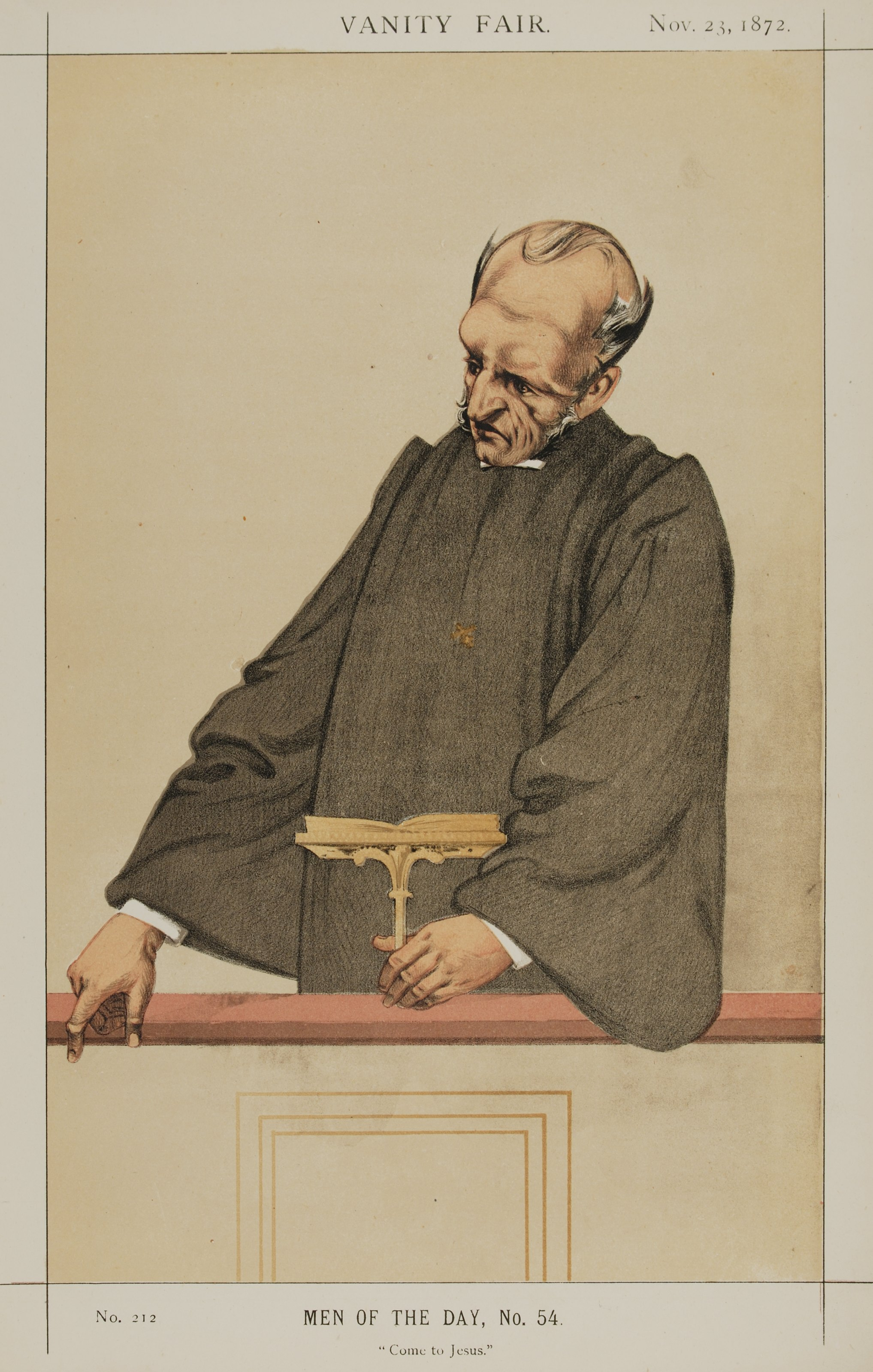 Men of the Day No.54: Caricature of The Rev. Newman Hall. Caption reads: "Come to Jesus"